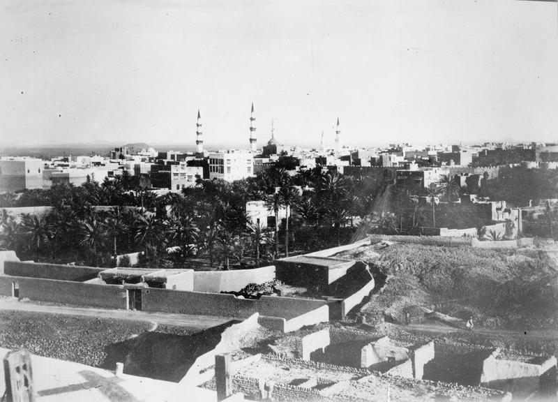 T E Lawrence and the Arab Revolt 1916 - 1918 General view of Medina from the west, showing the Prophet's Mosque in the centre.